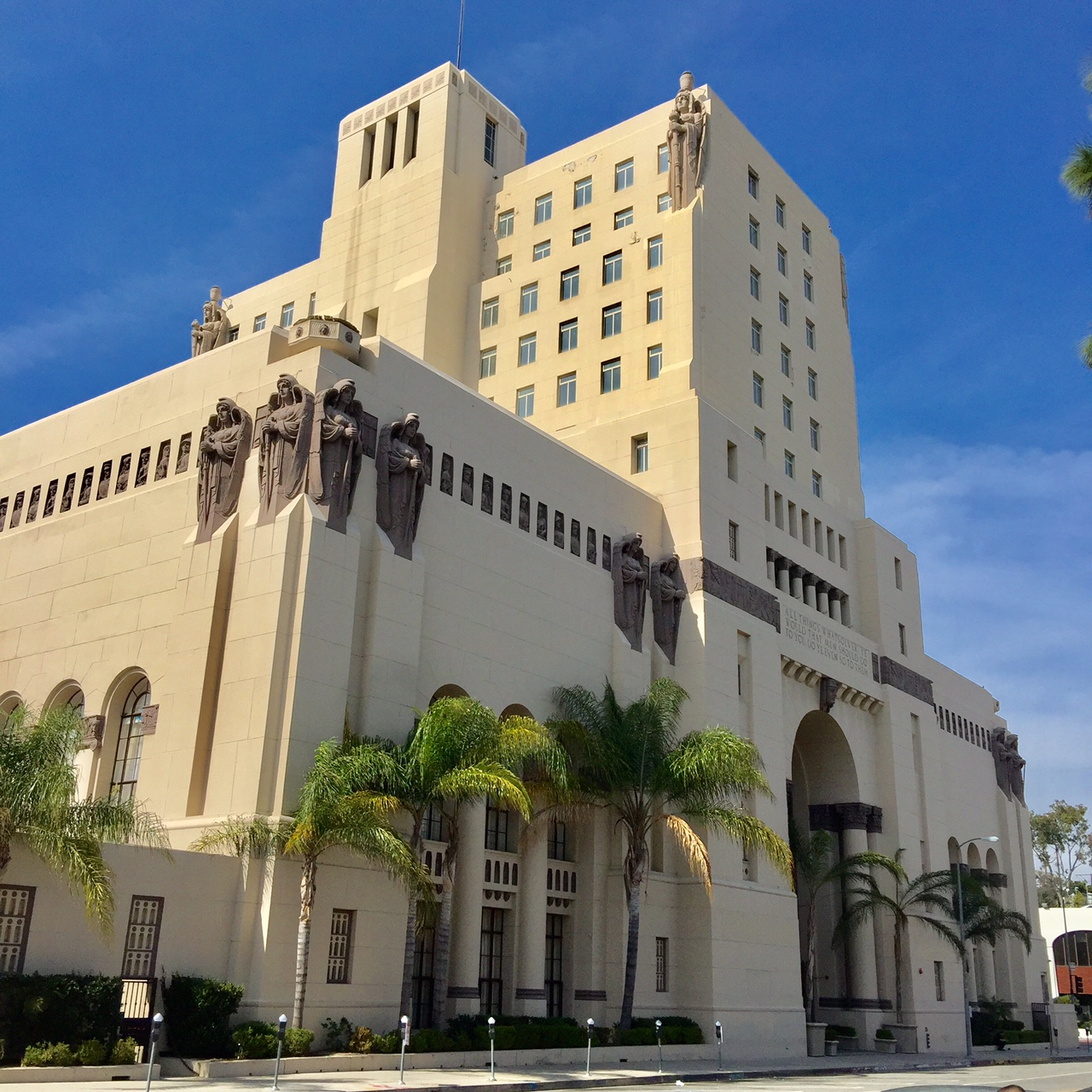 Park Plaza Hotel Splendor